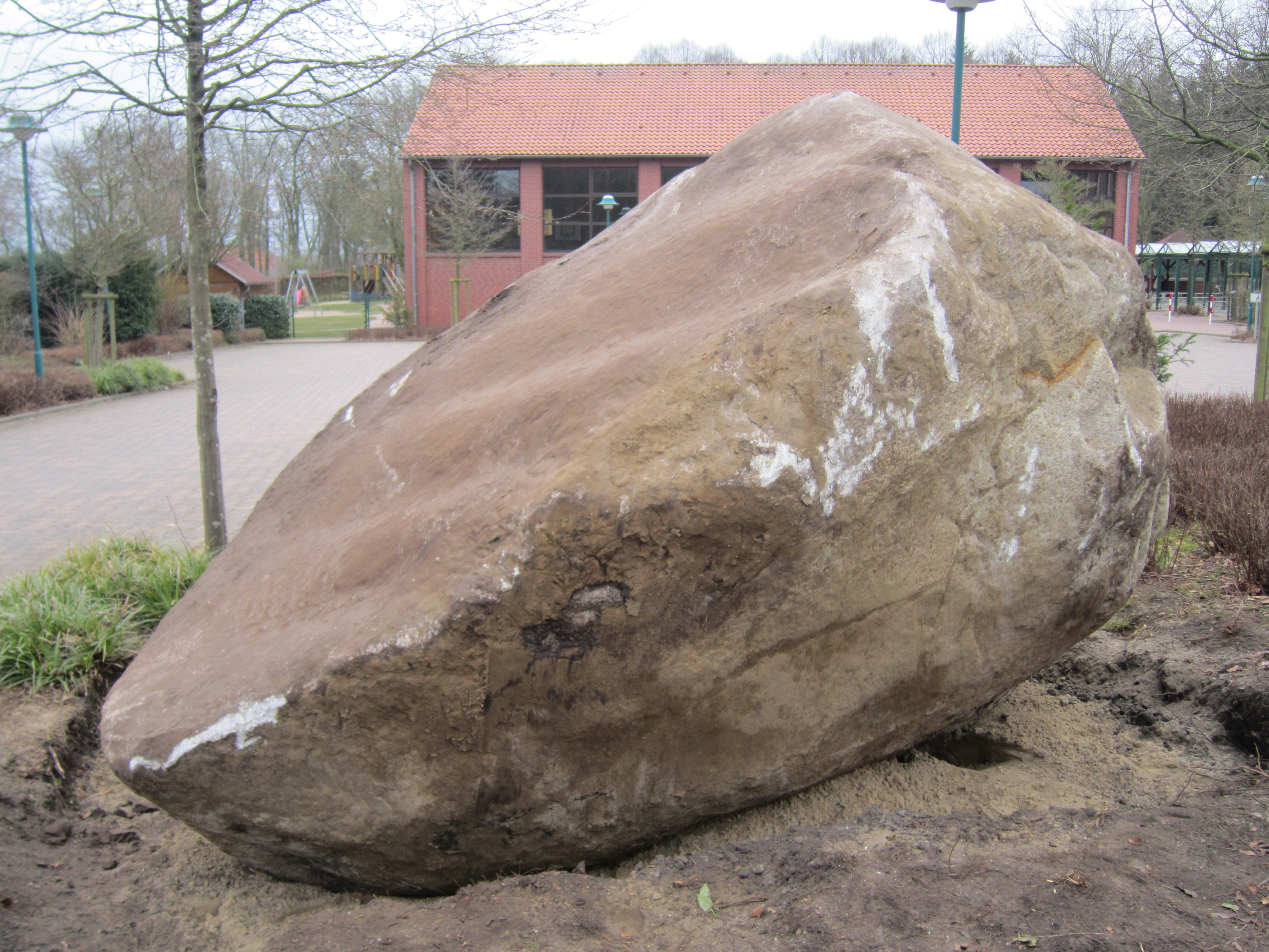 Glacial erratic in Kroge (Lohne), 30.2 tons heavy